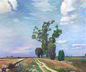 "Road to Skagen", oil painting by Danish artist Frederik Lange